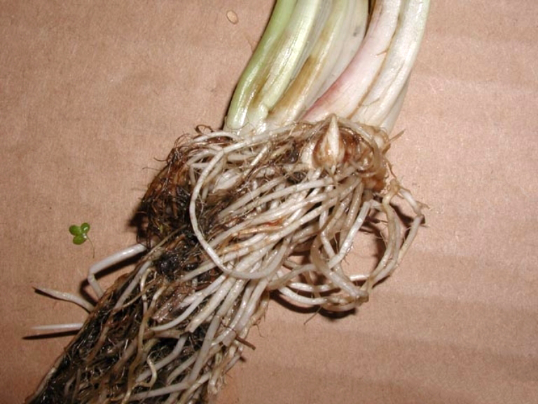 Butomus umbellatus L. - Flowering rush - Roots, United States